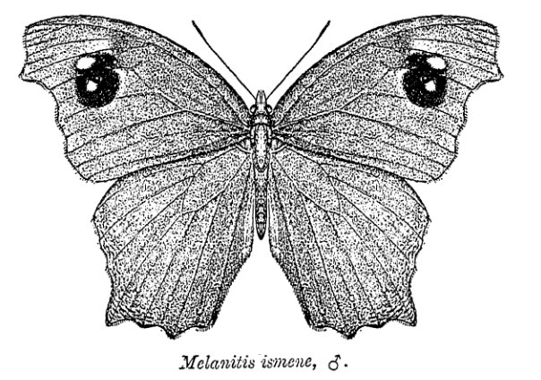 Male Melanitis ismene = Melanitis leda ismene (Cramer, [1775])